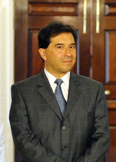 Guatemala Foreign Minister Harold Caballeros at the U.S. Department of State in Washington, D.C., on February 21, 2012.